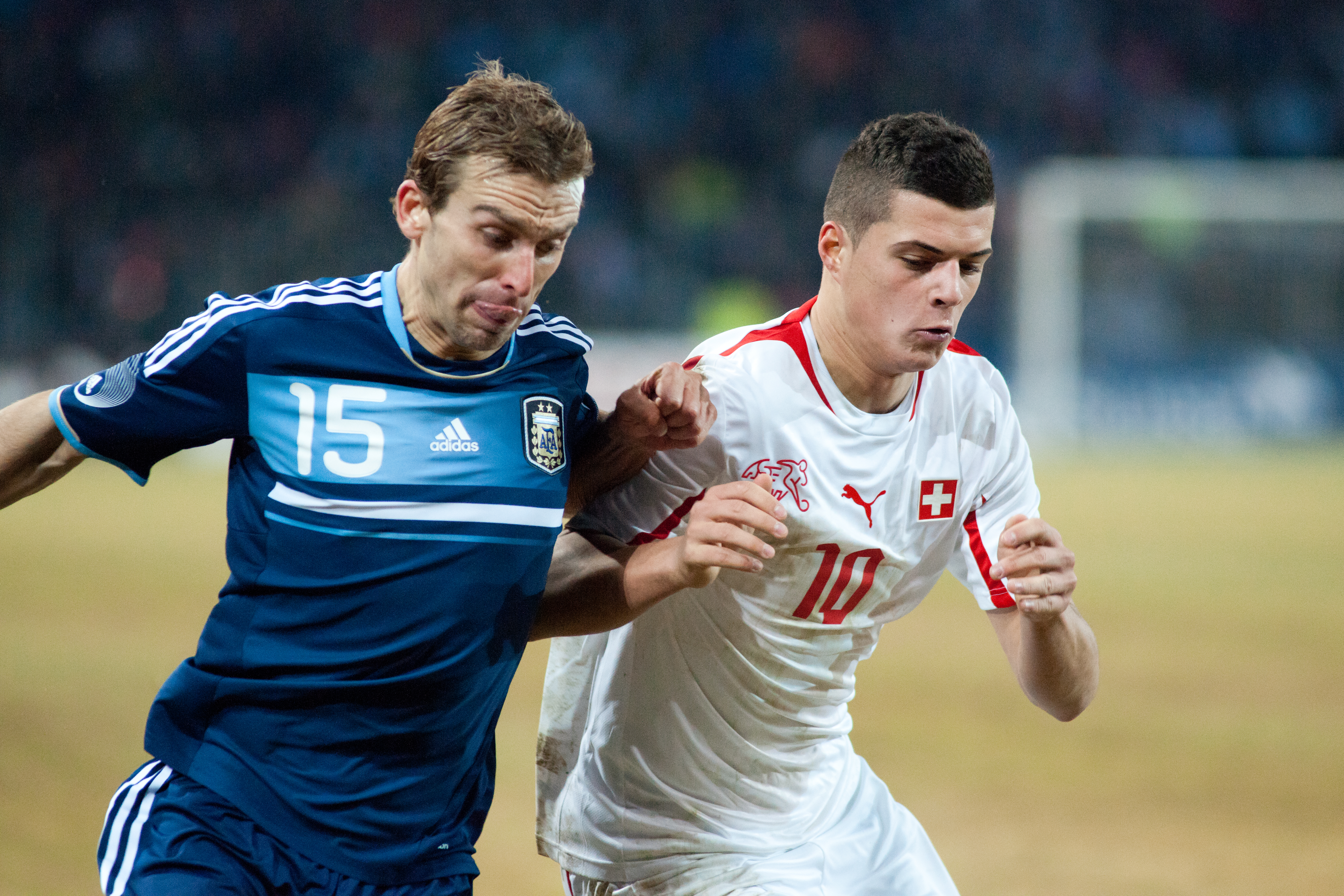 The making of this document was supported by Wikimedia CH. (Submit your project!) For all the files concerned, please see the category Supported by Wikimedia CH. Switzerland vs. Argentina, 29th February 2012